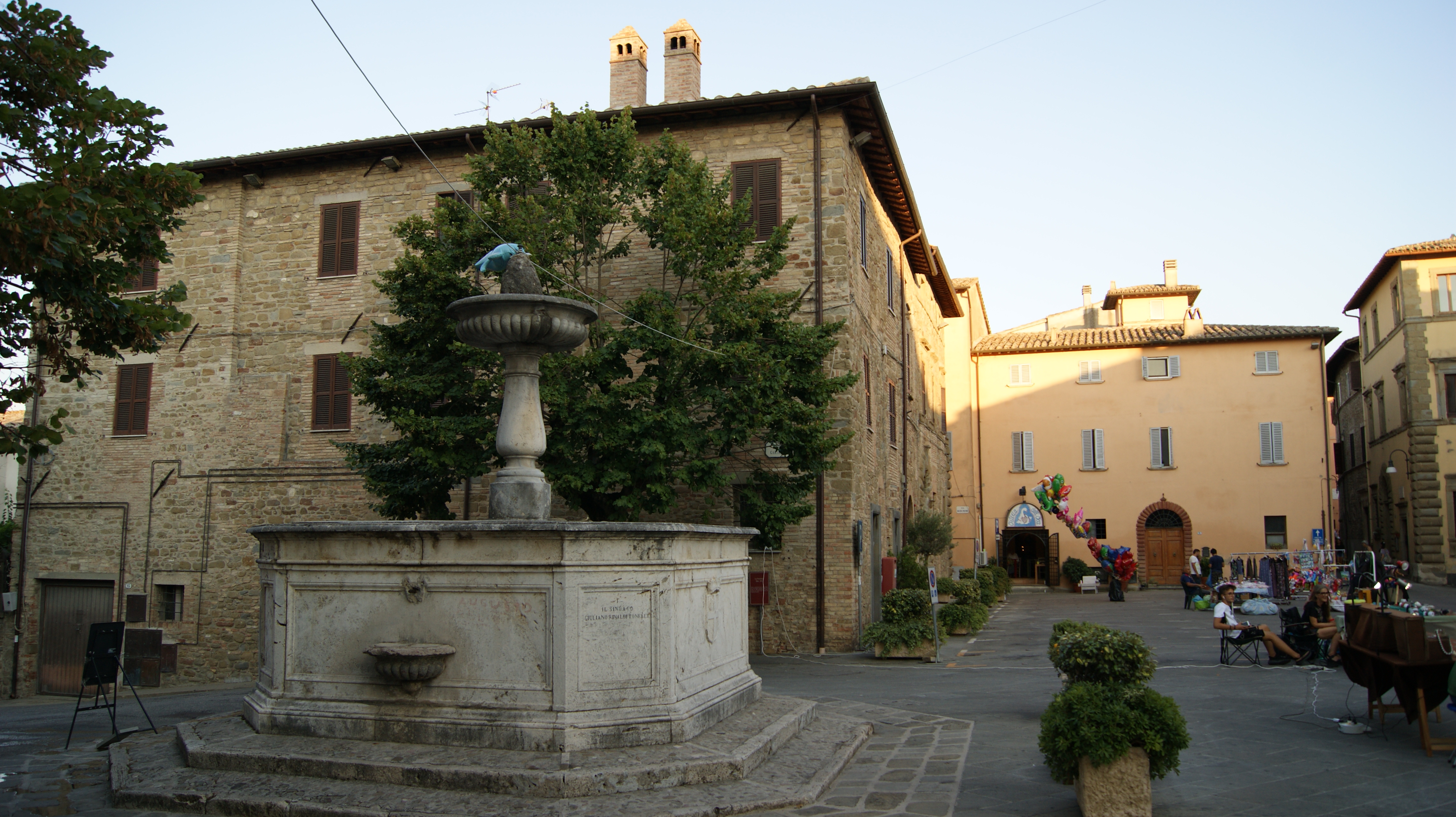 Bettona, Italy. Piazza Cavour and the village fountain.